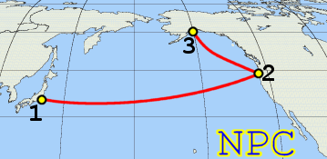 Route of the NPC Submarine communications cable. For more information on landing points (numbered), see Main article. Route was extrapolated from the article, since I was unable to find an exact map.(sources were no longer active)